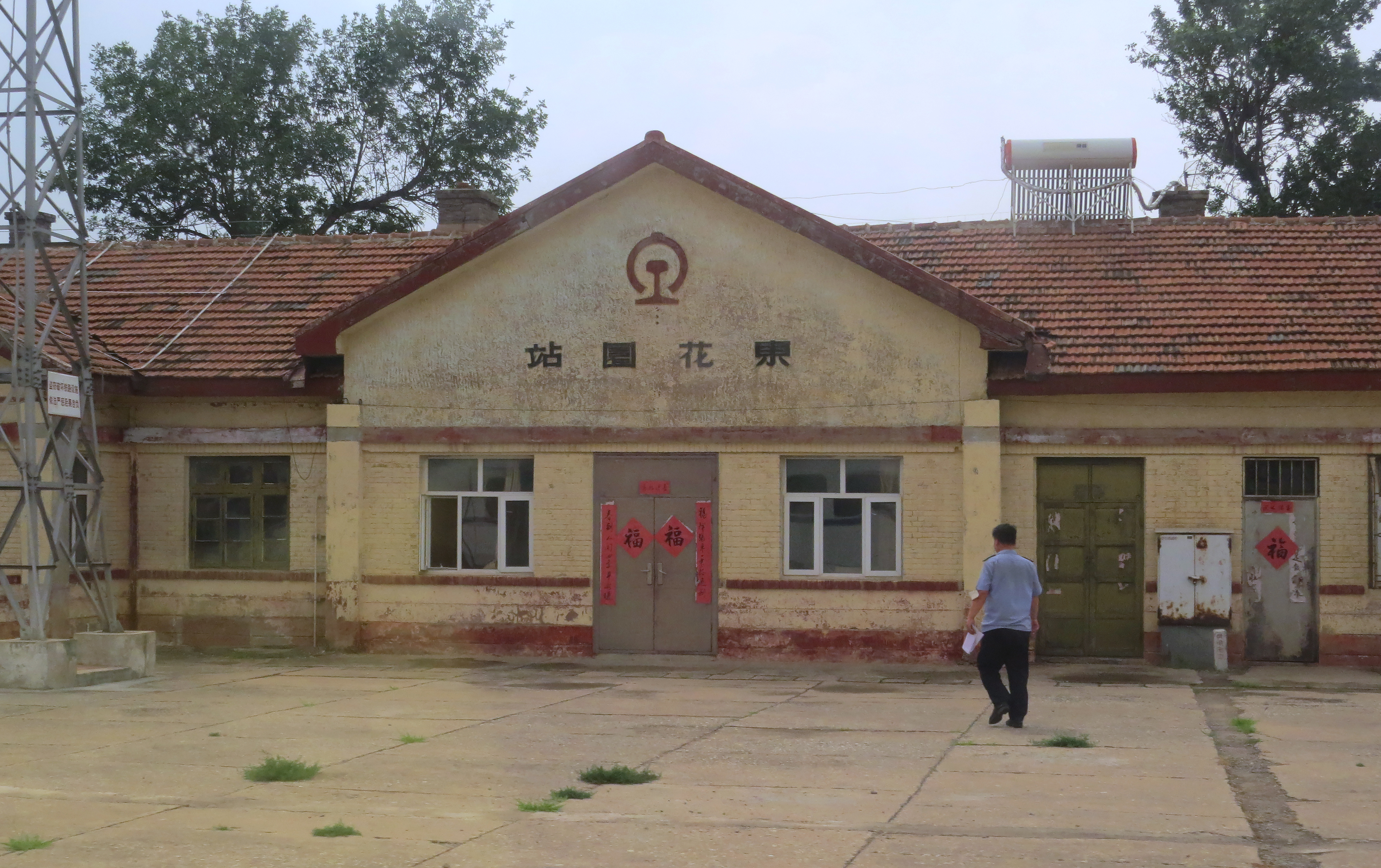 Taken from S287 after leaving Beijing.